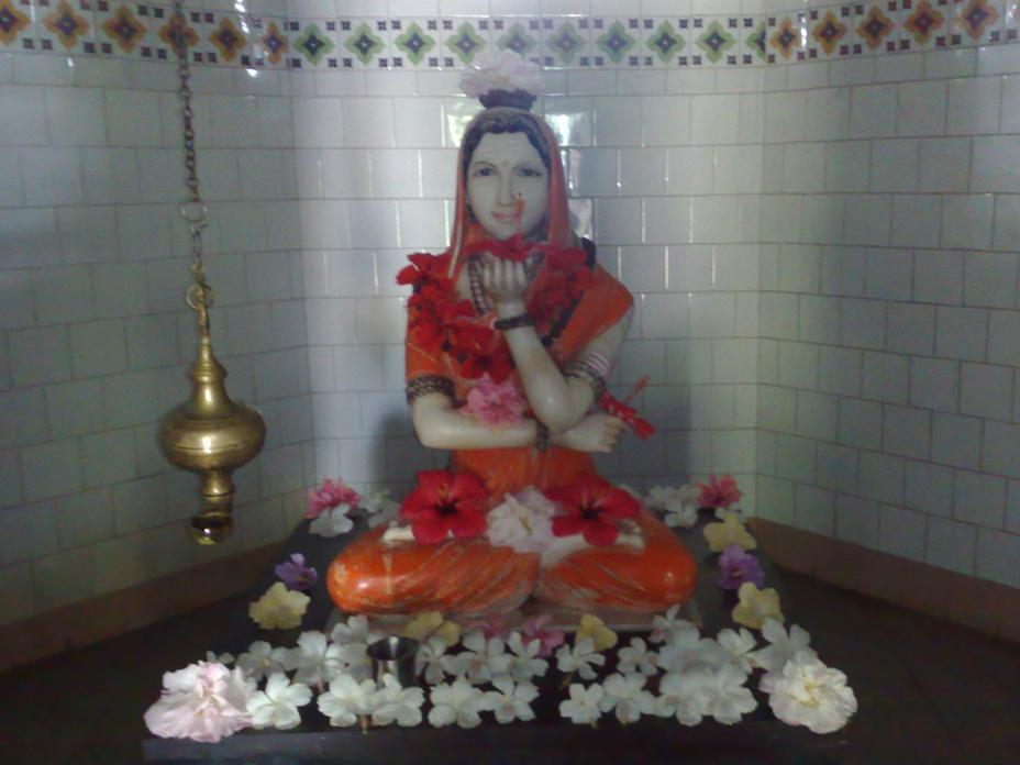 An idol of the Kannada poetess, Akka Mahadevi worshipped in a temple constructed at her birth-place, Udathadi in Shimoga district, Karnataka, India